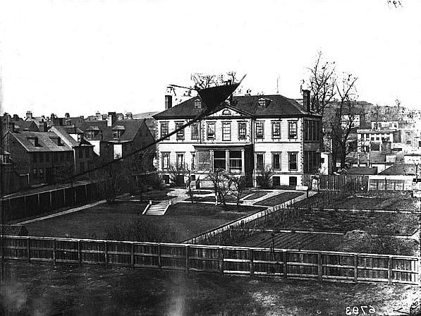 Bellevue House, built 1801, as photographed circa 1870-1885 by the Royal Engineers. This structure burned down around 1885 and was rebuilt. Its replacement was demolished in 1955 and the site became a surface parking lot. The new Halifax Central Library presently occupies the site. Nova Scotia Archives reference no.: Royal Engineers NS Archives no. 6793 (Piers no. 191)